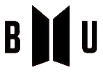 Logo for the fictional BTS Universe, also called the "BU"